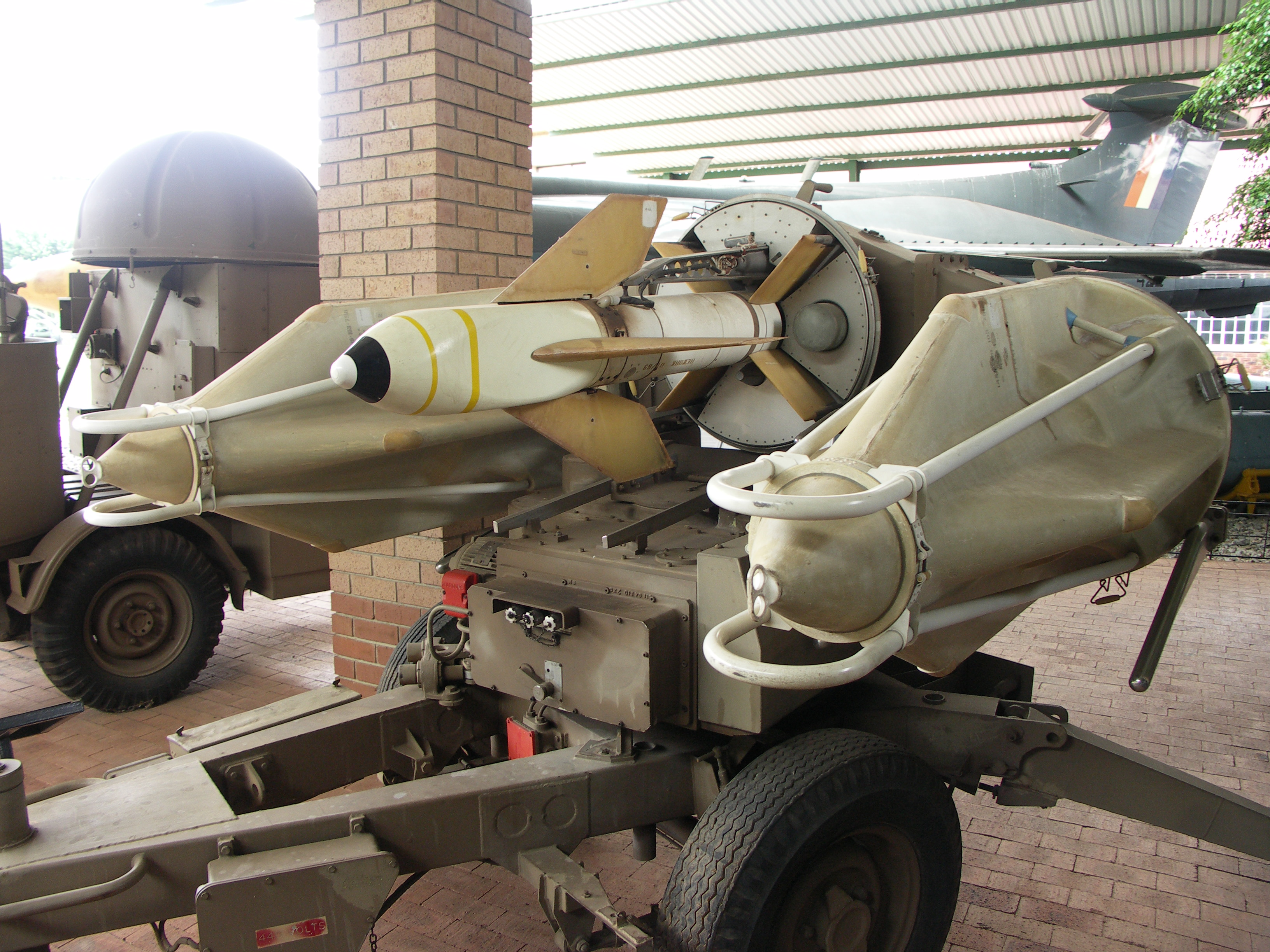 Hilda (Tiger Cat) missile system. South African National Museum of Military History